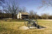 Pea Ridge from National Park Service